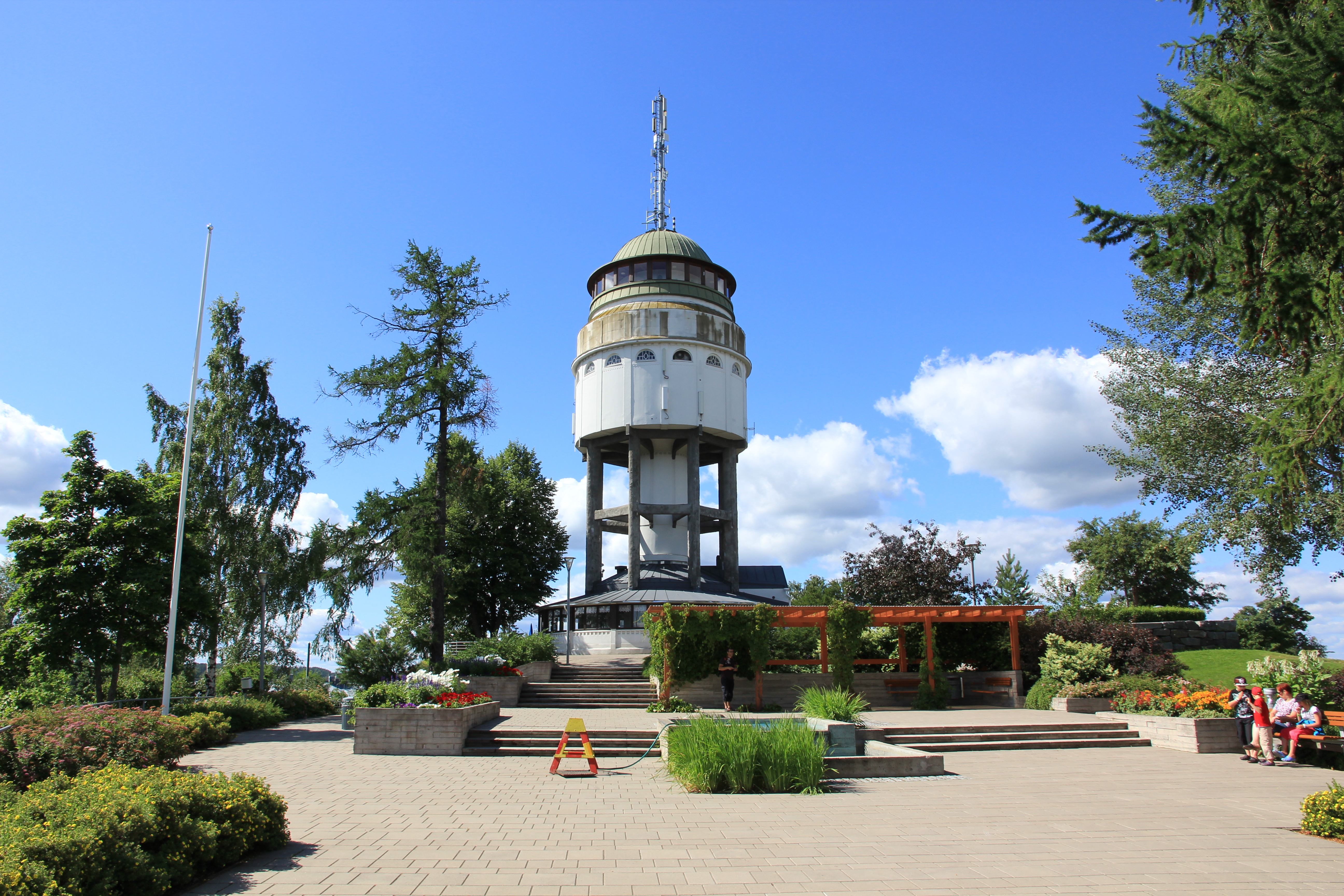 Old Naisvuori water tower in Mikkeli. Currently only used as an observation tower.